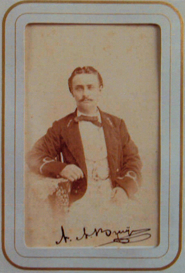 Portrait of Antonie Augustus Bruijn (1842-1890) Lieutenant 2nd Class